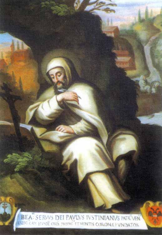 Blessed Paolo Giustiniani, founder of Monte Corona Hermits.